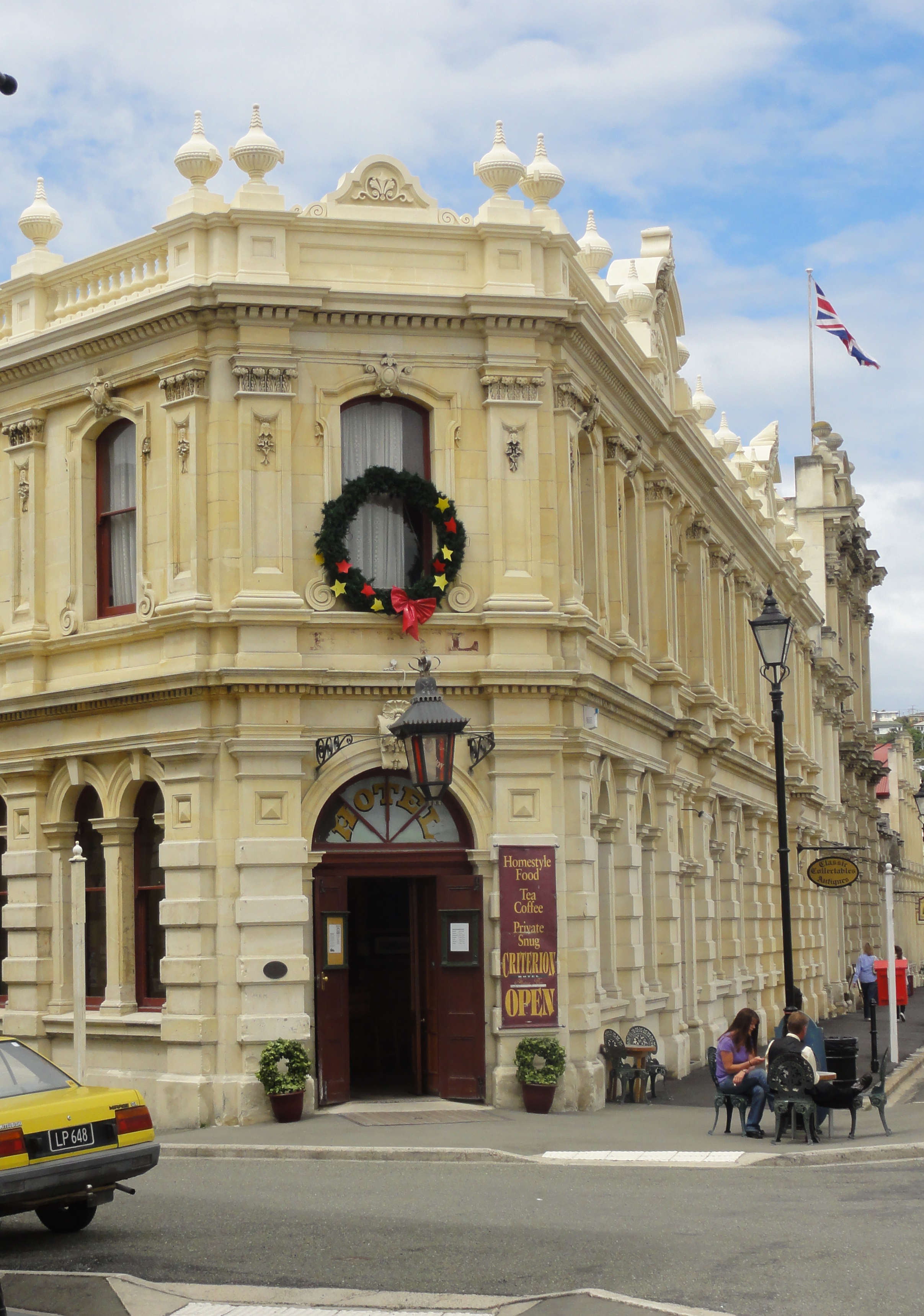 Criterion hotel entrance, Oamaru, New Zealand